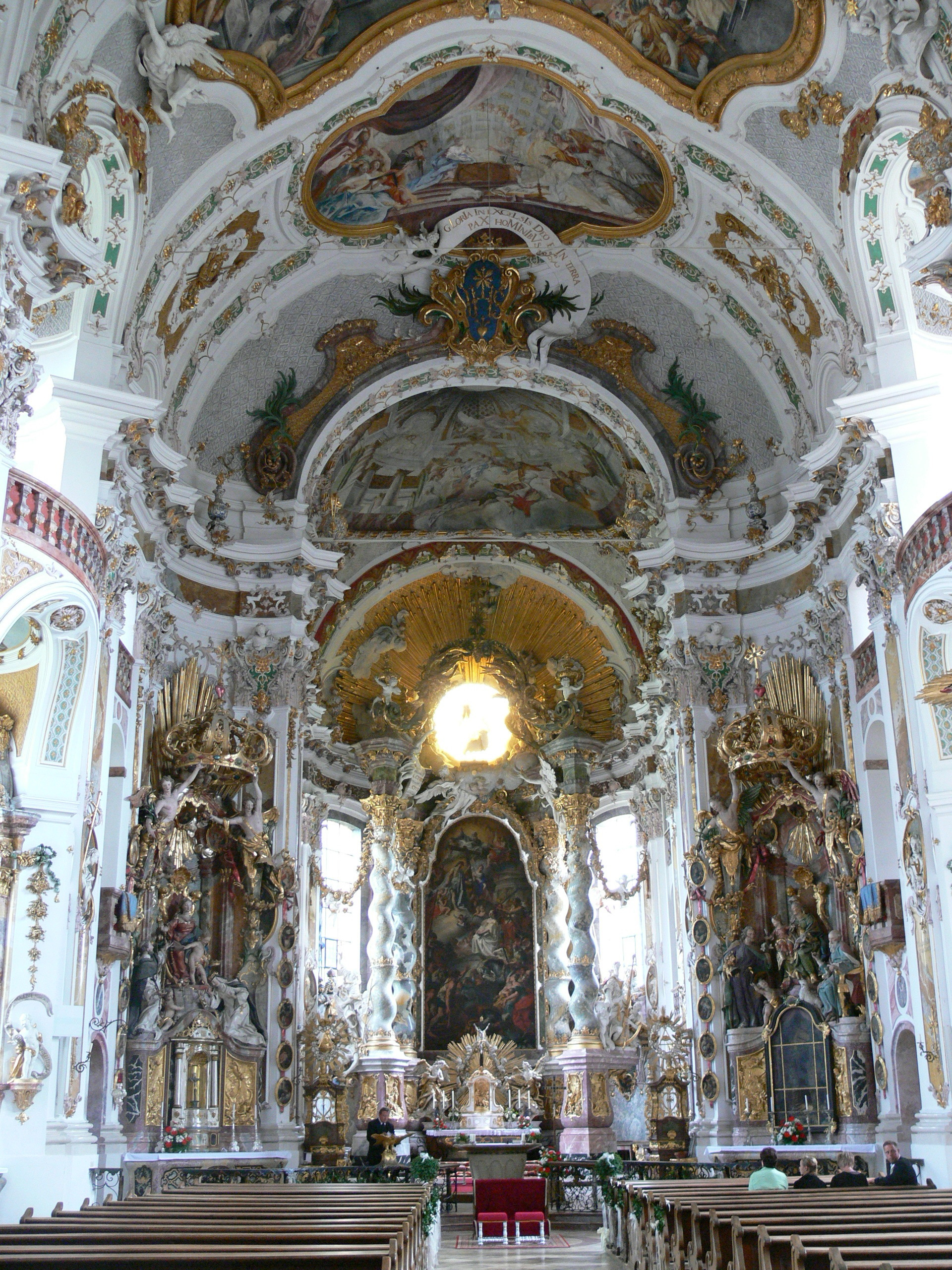 Monastery church Saint Margarete in Osterhofen. Interior.